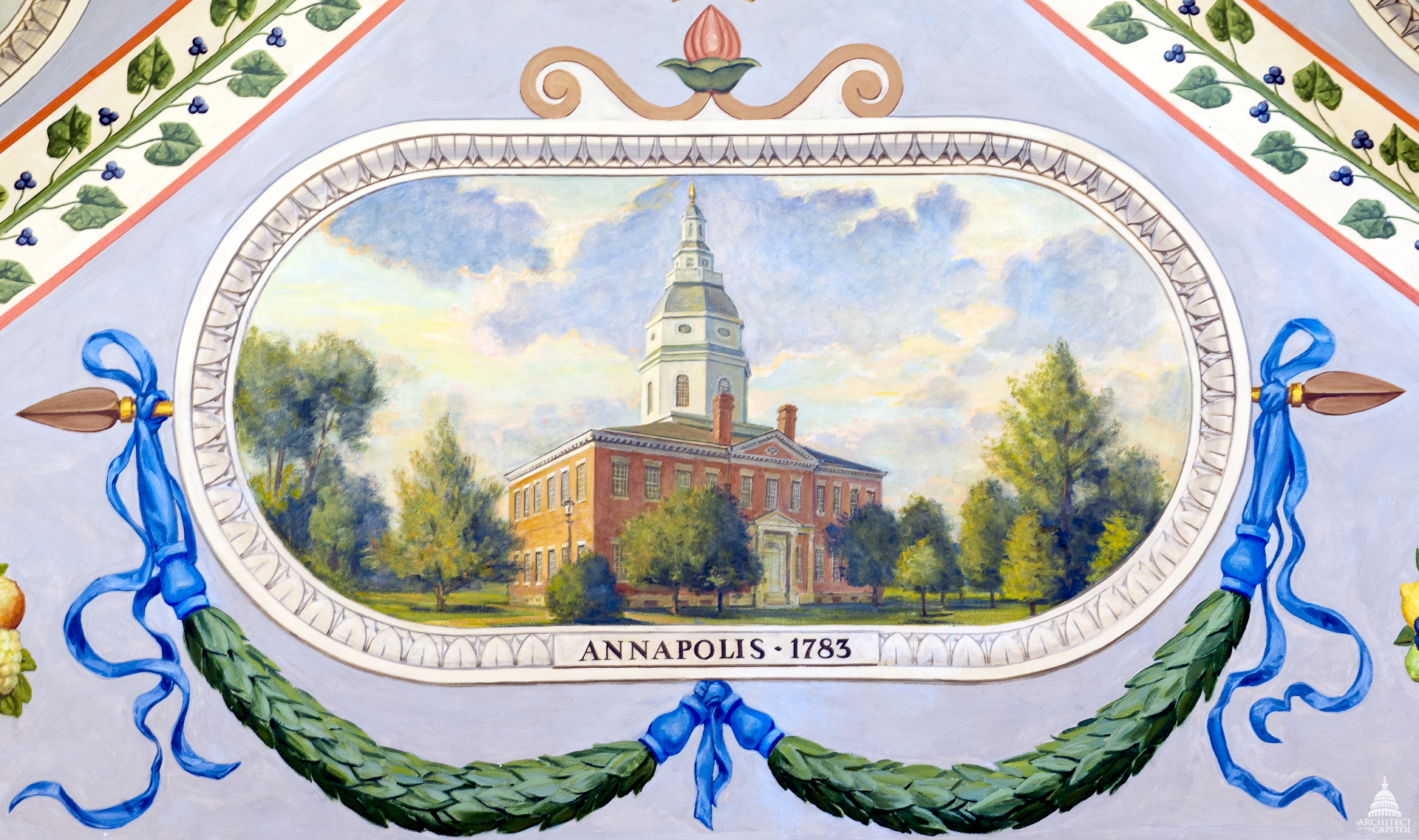 Allyn Cox Oil on Canvas 1973-1974 Hall of Capitols House wing, Cox Corridors The next congressional meeting place was the State House in Annapolis, Maryland. It was here that George Washington resigned his commission as commander in chief of the Continental Army. This official Architect of the Capitol photograph is being made available for educational, scholarly, news or personal purposes (not advertising or any other commercial use). When any of these images is used the photographic credit line should read “Architect of the Capitol.” These images may not be used in any way that would imply endorsement by the Architect of the Capitol or the United States Congress of a product, service or point of view. For more information visit